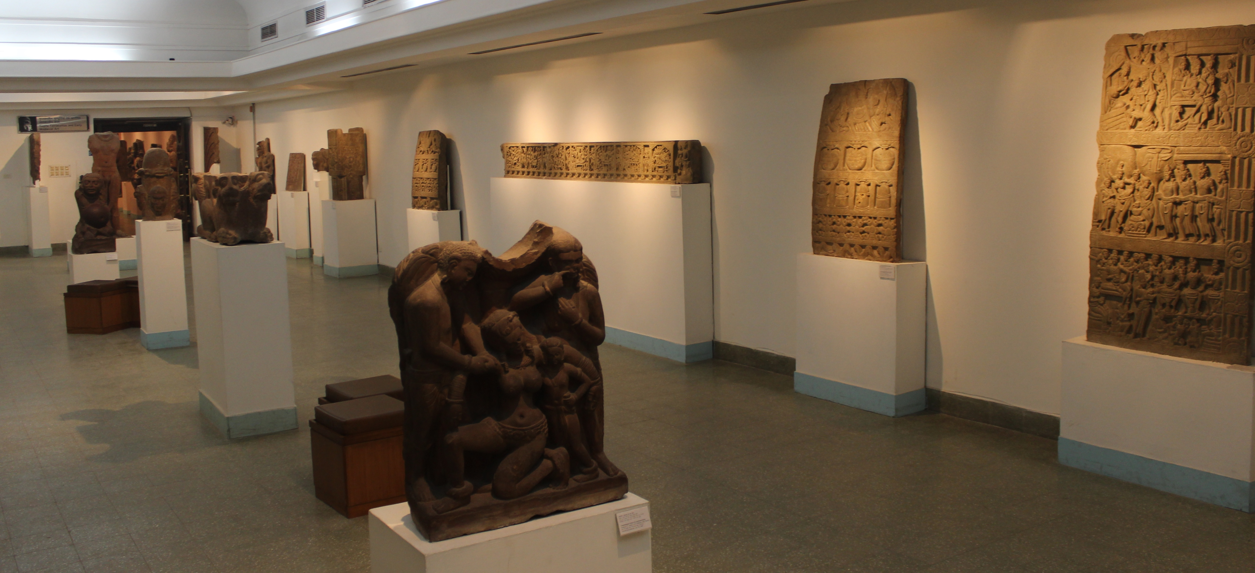 A view of the Kushana gallery